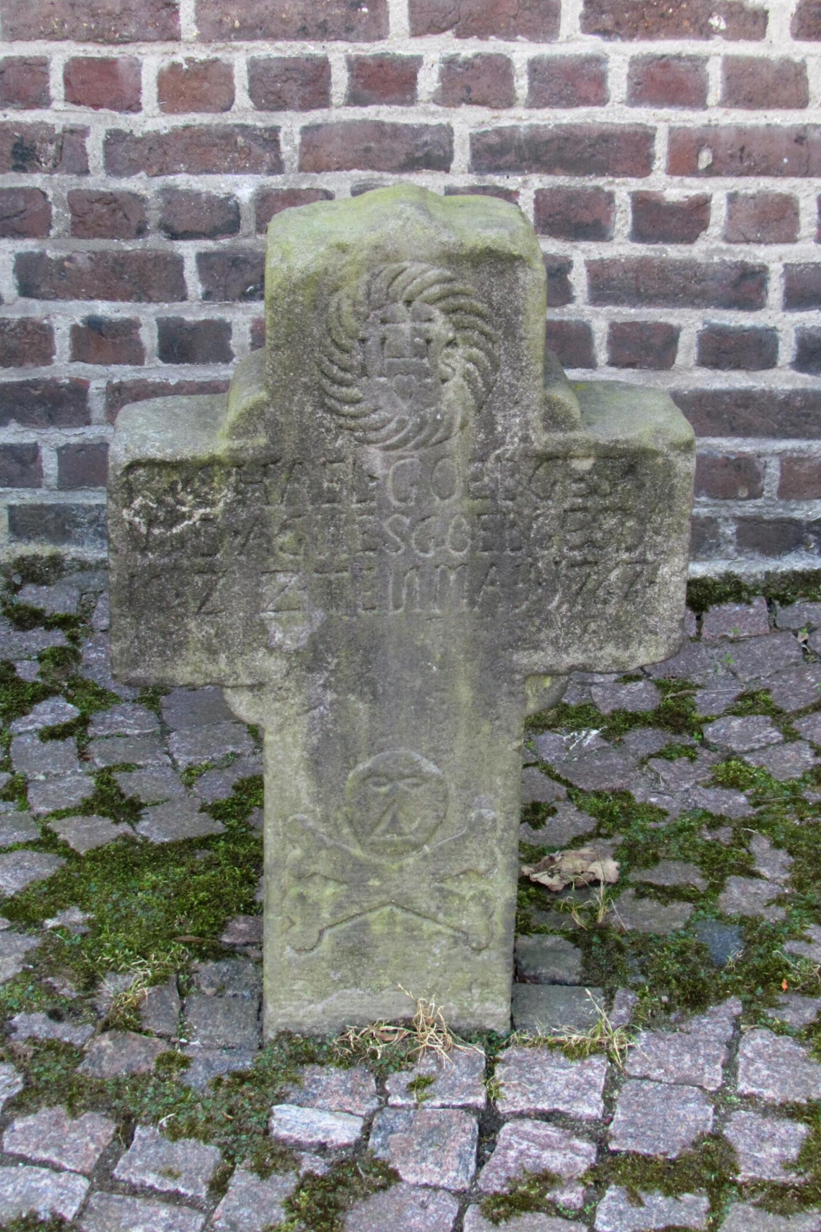 This is a photograph of an architectural monument.It is on the list of cultural monuments of Korschenbroich